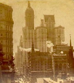 Manhattan view showing Singer Building and City Investing Building, c. 1909, scanned from stereocard in Infrogmation (talk) own collection